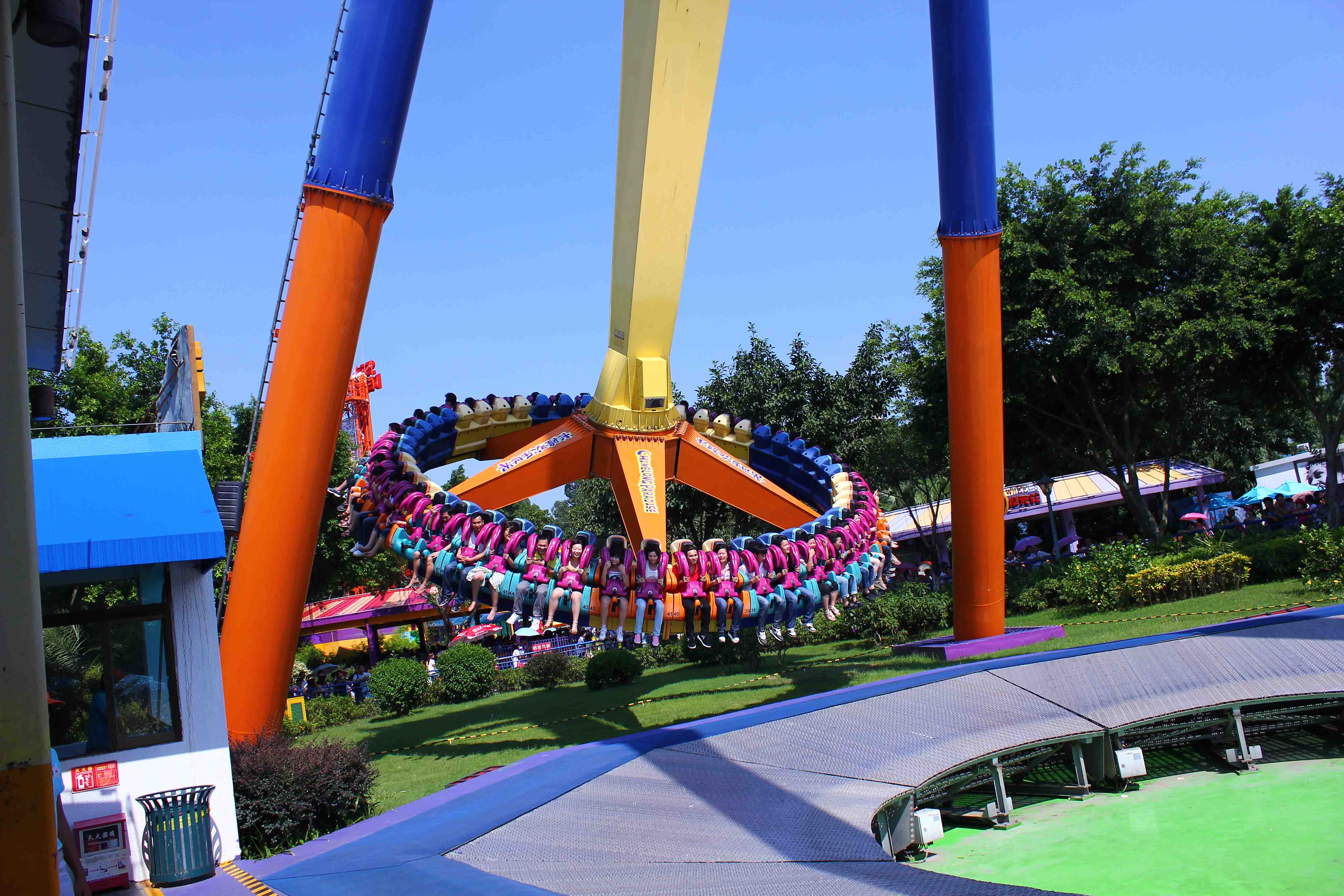 Super Pendulum in Chime-Long Paradise Amusement Park in Guangzhou，China.